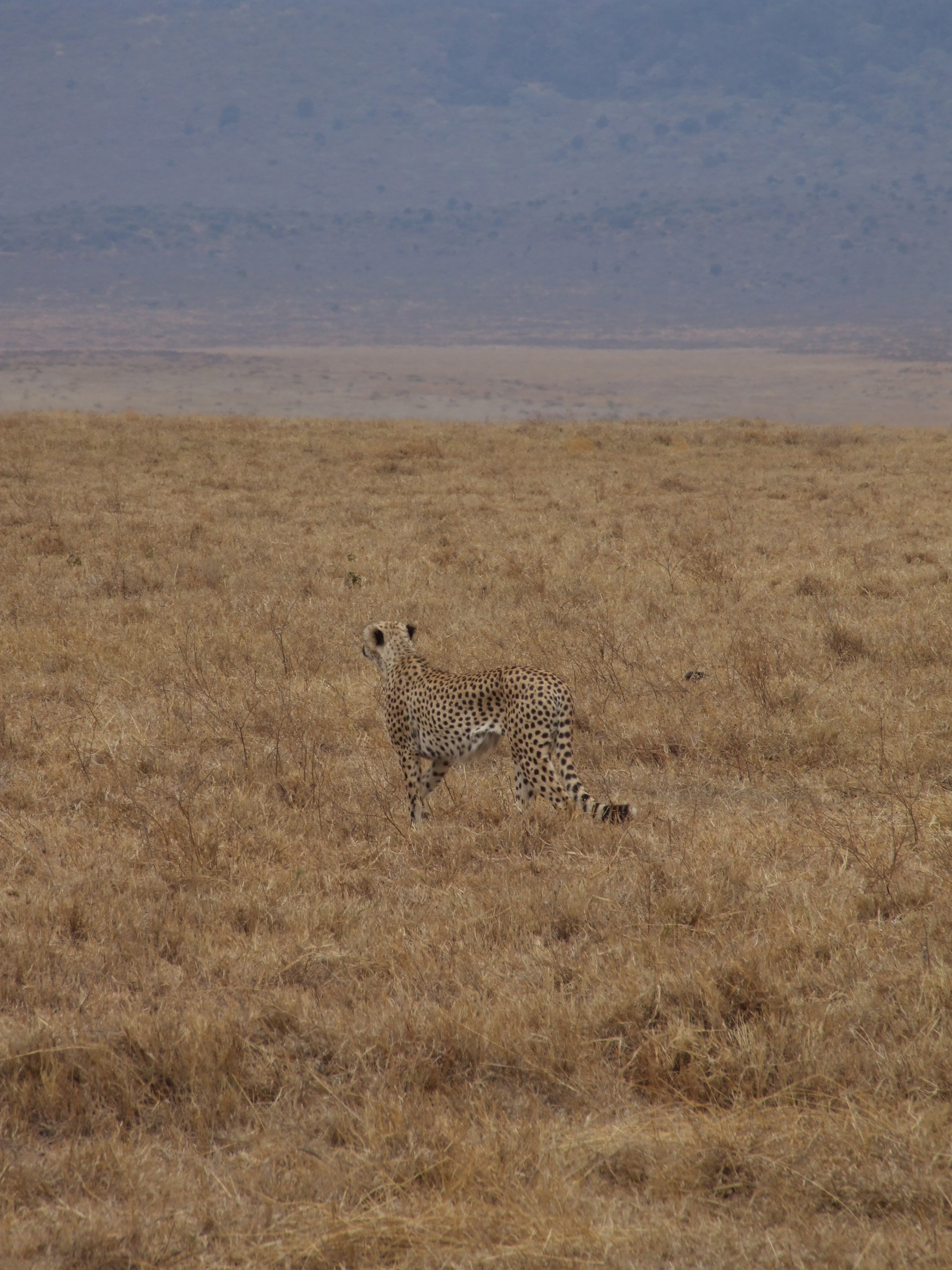 Cheetah in Ngorongoro